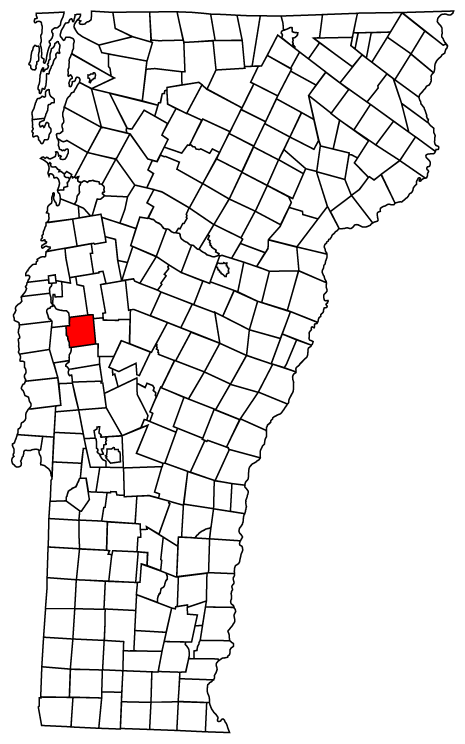 Description: Map of Vermont towns with Middlebury highlighted Source: Map created by Jared C. Benedict on 26 March 2004. Copyright: © Jared C. Benedict.